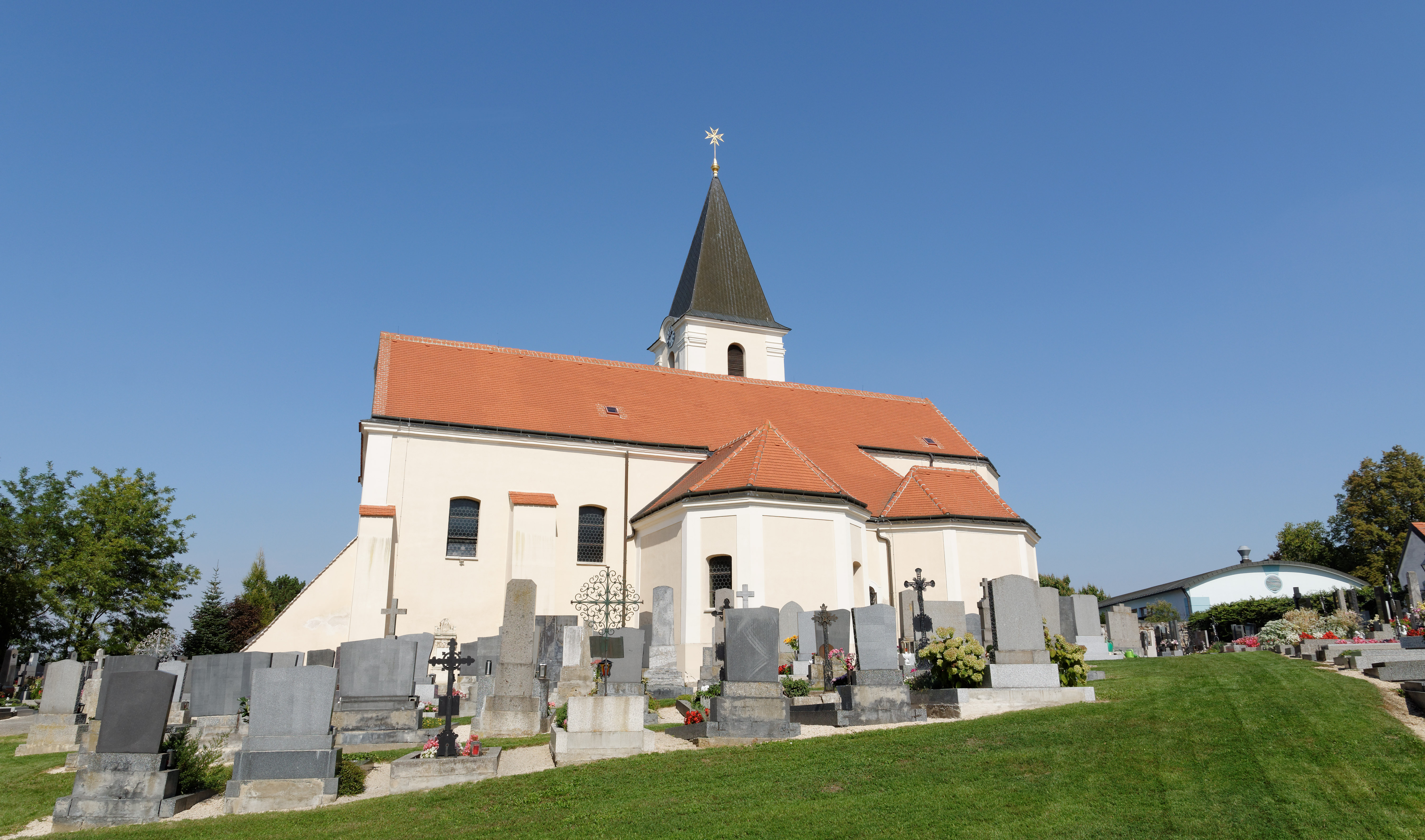 Catholic parish church at Großharras, Lower Austria, Austria